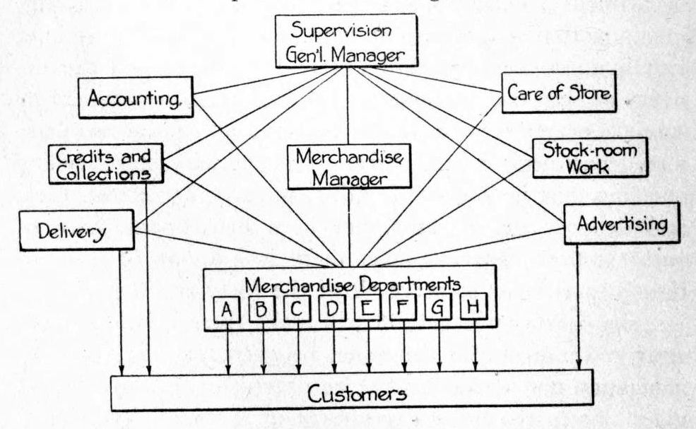 Chart showing Internal Organization of Department Store, 1915